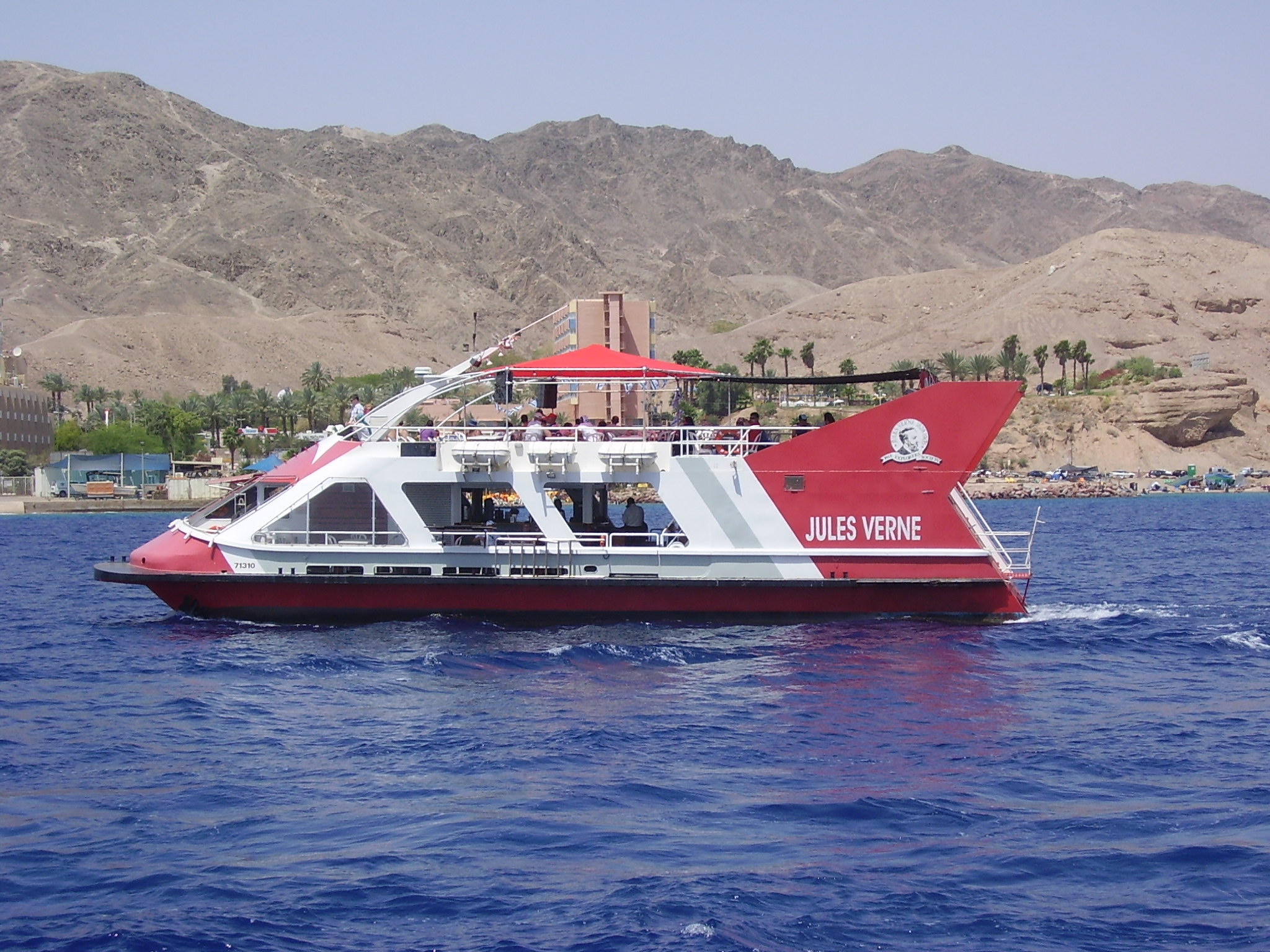 jules vern boat in eilat sea